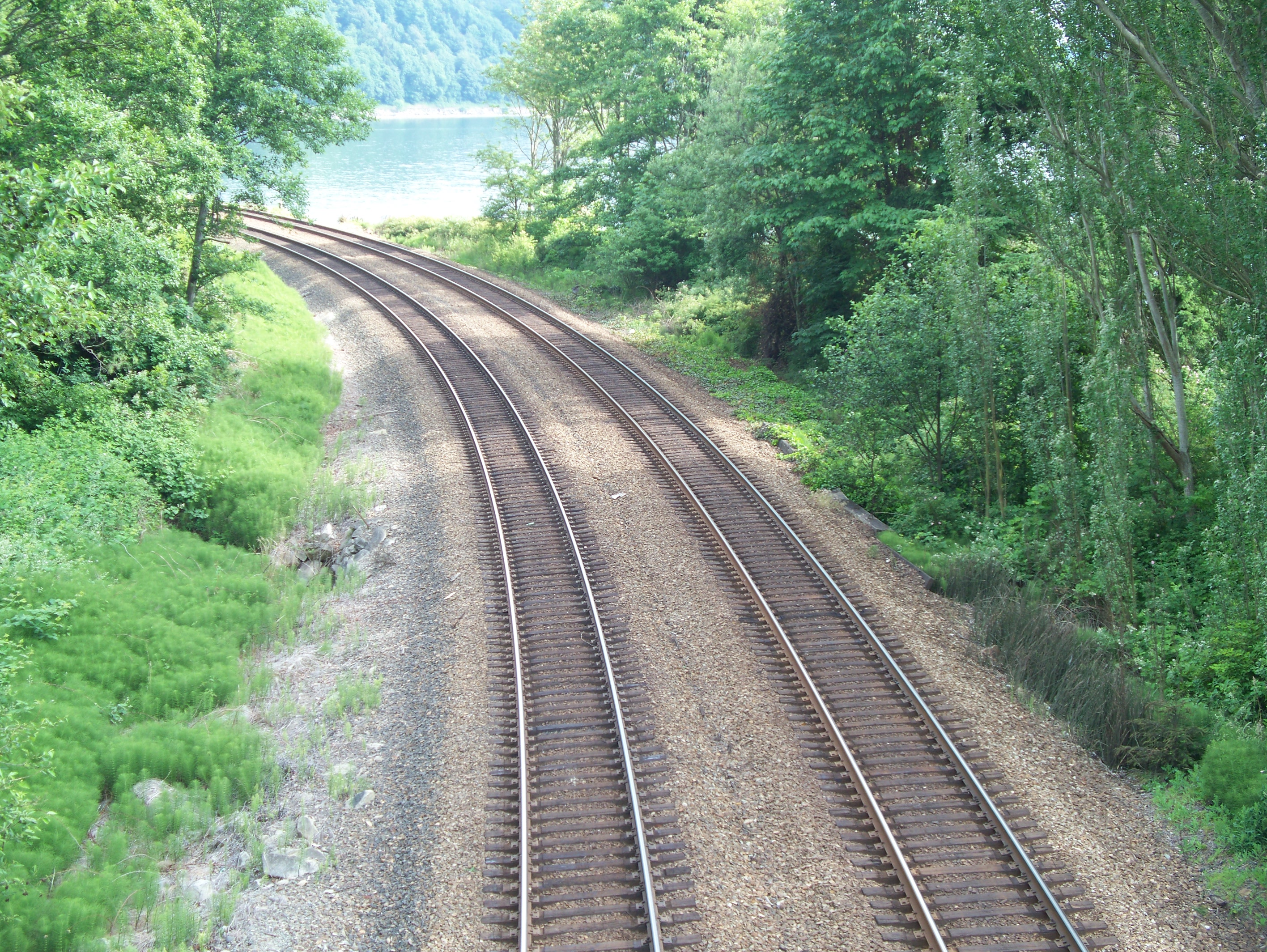 Pair of train rails in a wooded area.